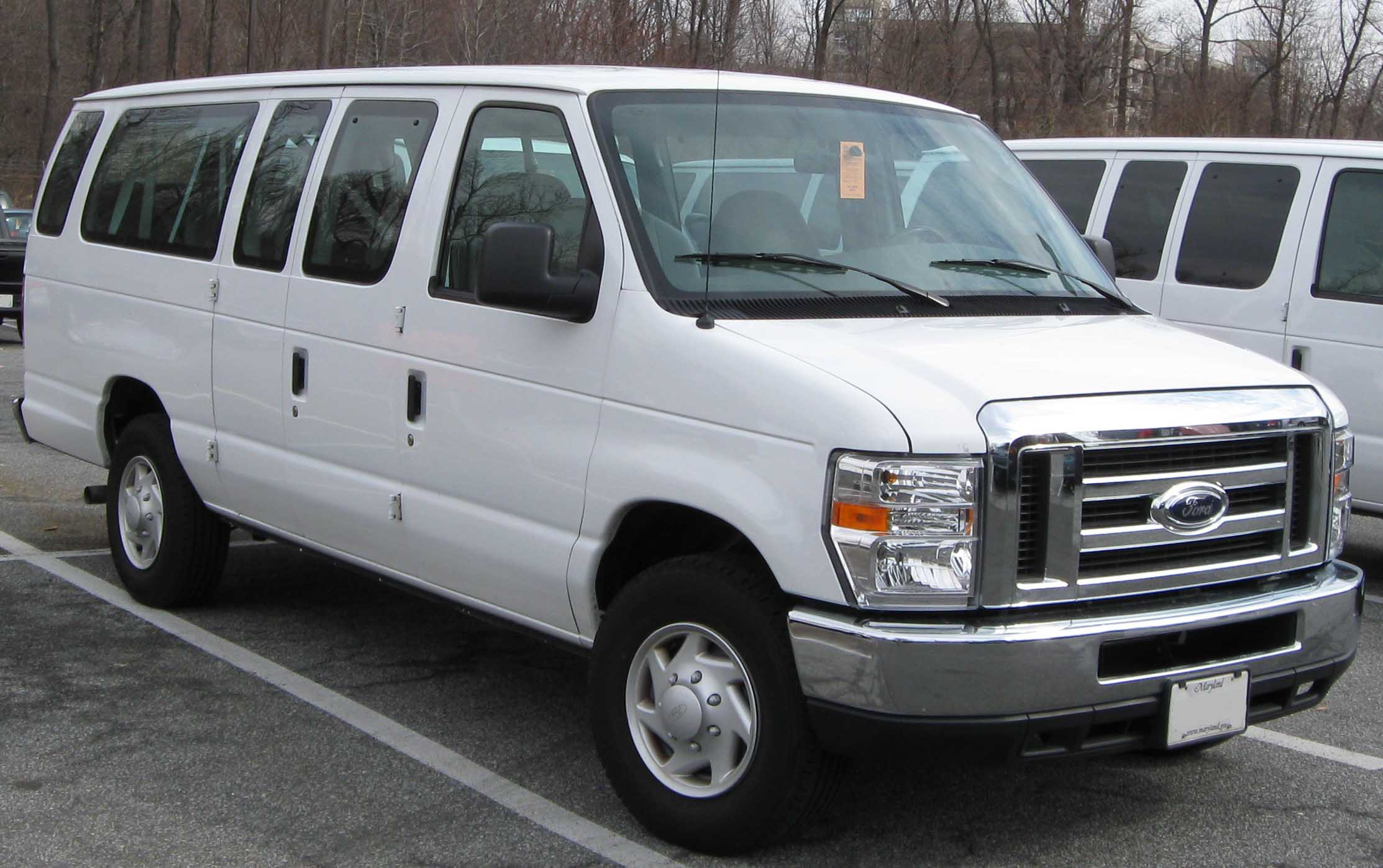 2008-2009 Ford E-Series photographed in College Park, Maryland, USA.